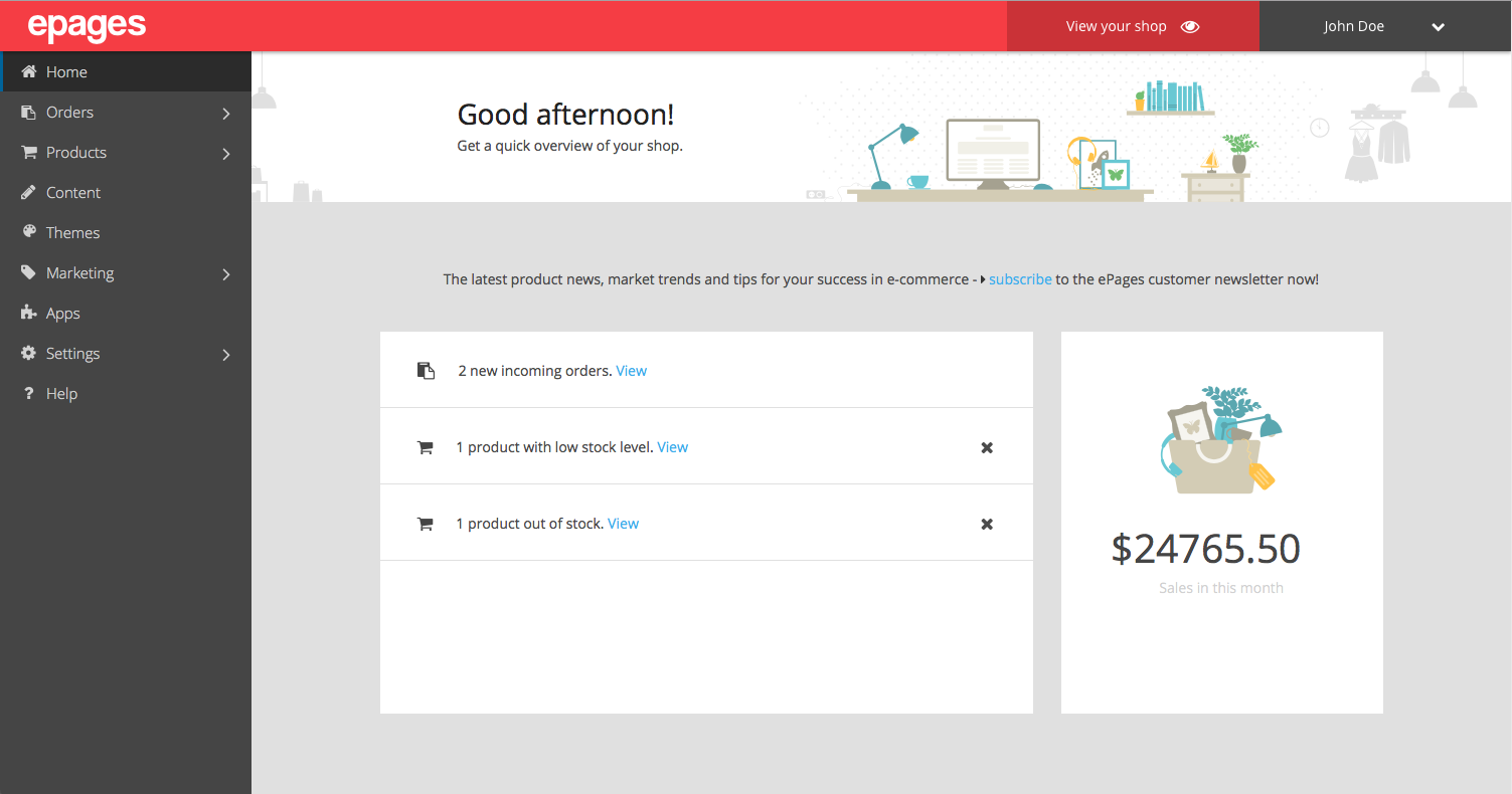 ePages Now Merchant Administration Area